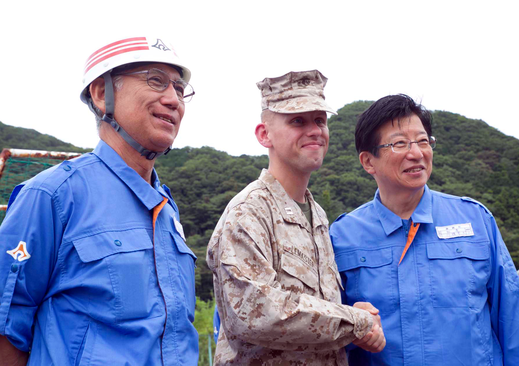 Heita Kawakatsu, Governor of Shizuoka Prefecture, discussed plans for conducting humanitarian assistance and disaster relief operations during the "Shizuoka Disaster Drill" in Shimoda City, Shizuoka Prefecture on August 31, 2014.